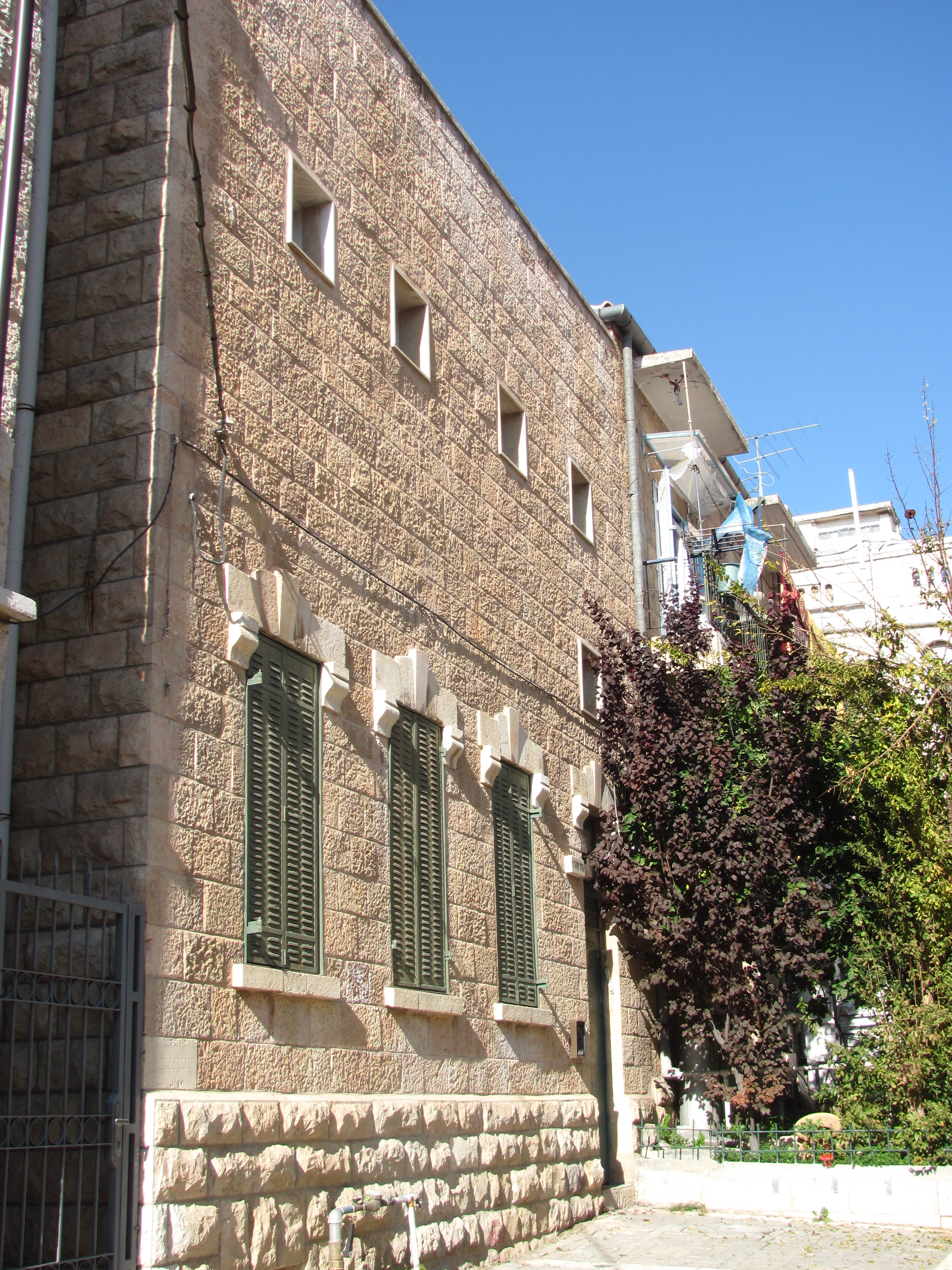 Masonic Temple at 13 Ezrat Yisrael Street, Jerusalem, Israel.